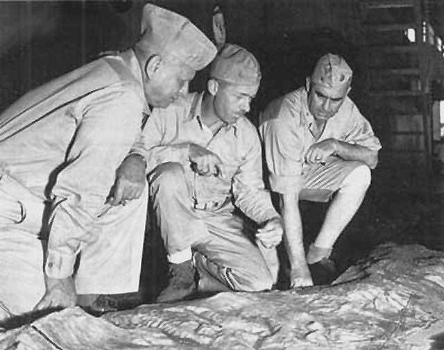 En route to Guam on board the command ship USS Appalachian (AGC 1), Marine III Amphibious Corps commander, MajGen Roy S. Geiger; his chief of staff, Col Merwin H. Silverthorn; and the Corps Artillery commander, BGen Pedro A. del Valle, all longtime Marines and World War I veterans, review their copy of the Guam relief map to assist in their estimates and plans for the operation. Department of Defense Photo (USMC) 87140 retrieve from